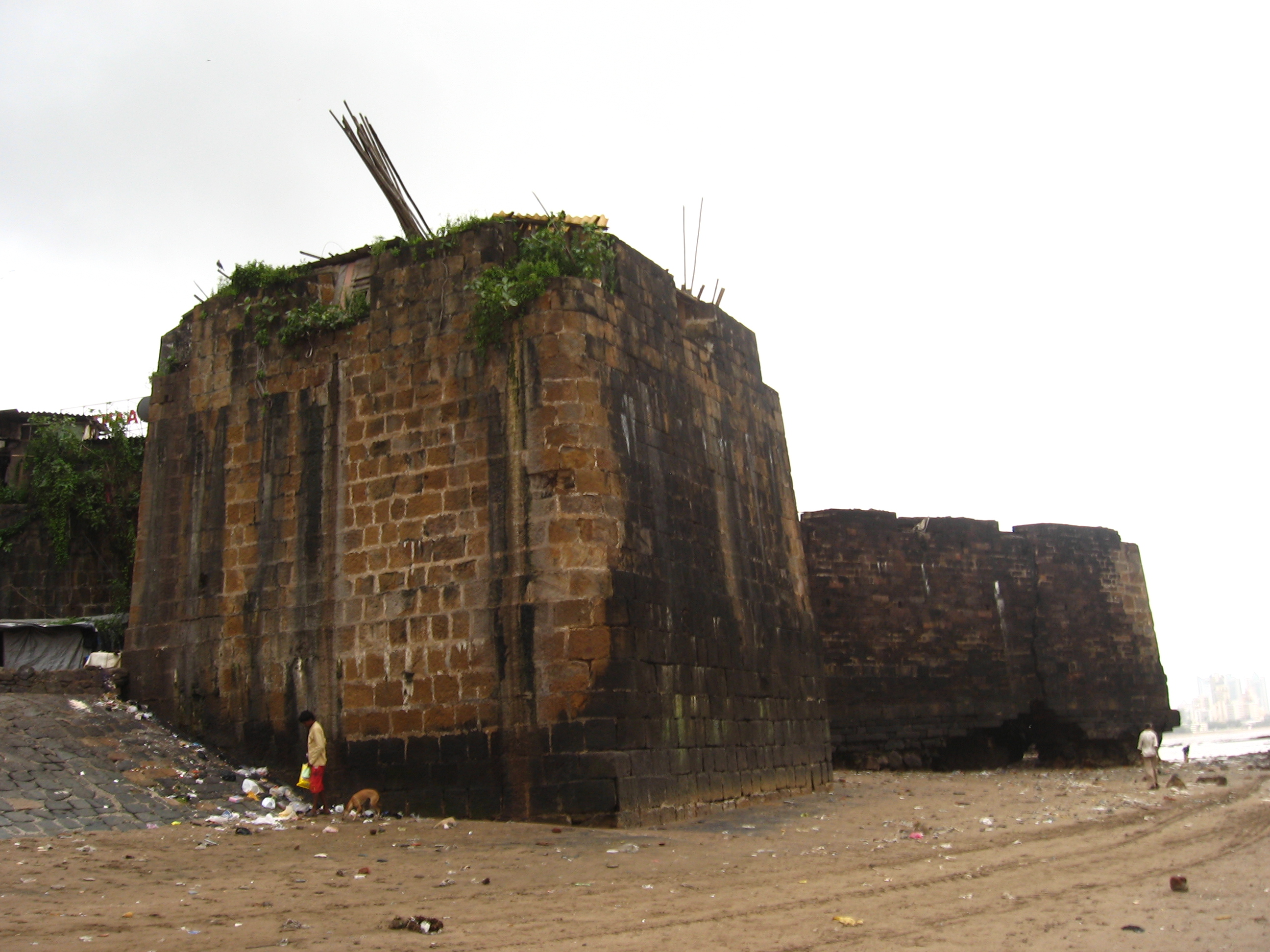 Mahim Fort, a 17th century British fort in Mahim, Mumbai